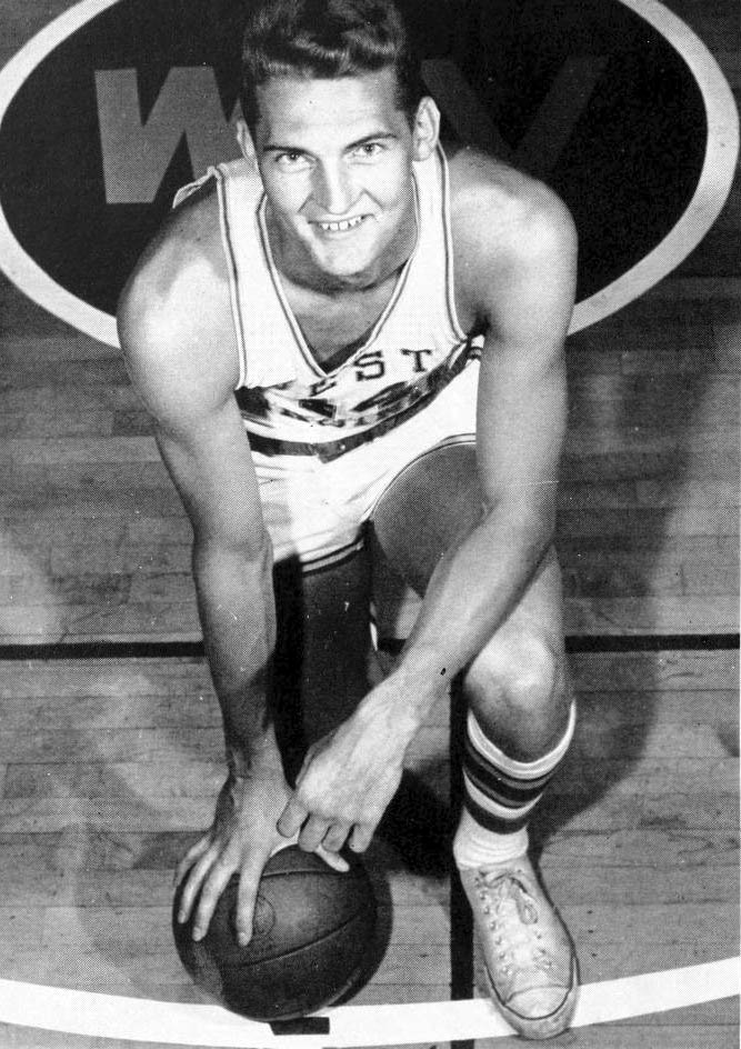 Photograph of University of West Virginia basketball player Jerry West